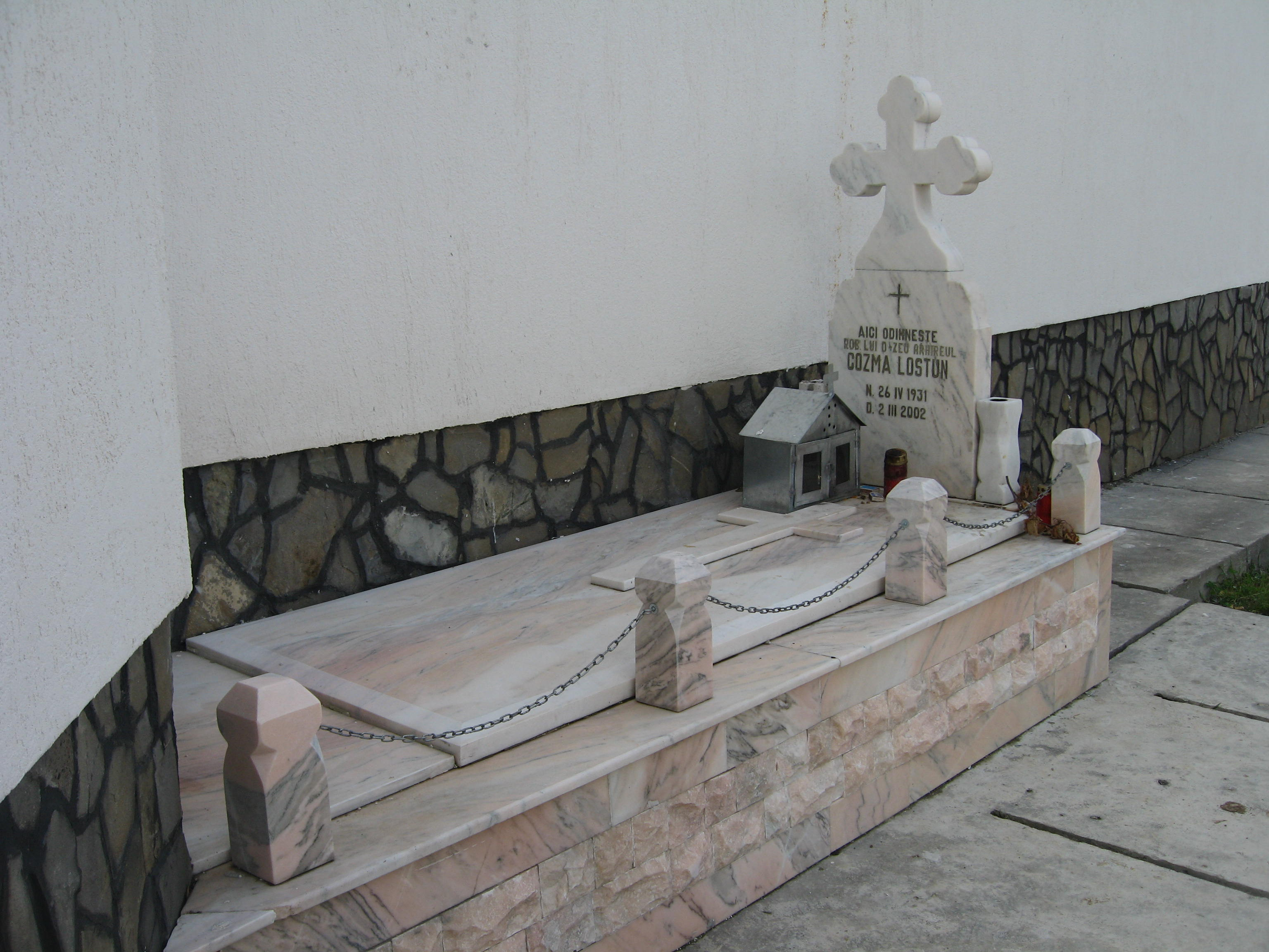 Tomb of bishop Cozma Lostun